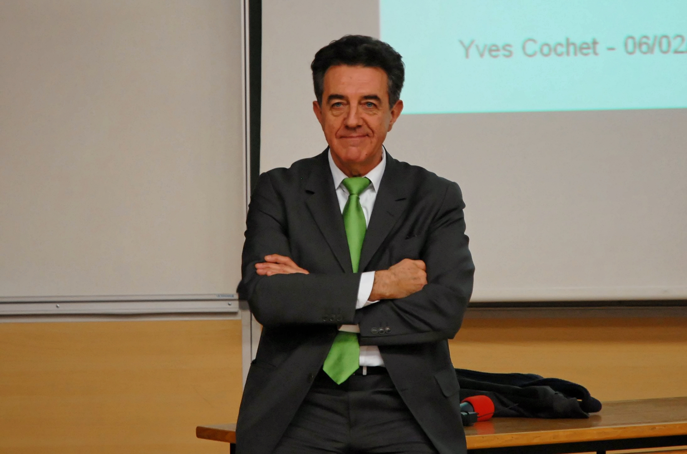 Yves Cochet giving a talk about the Hubbert peak theory at INSA in Toulouse on 6 february 2007.